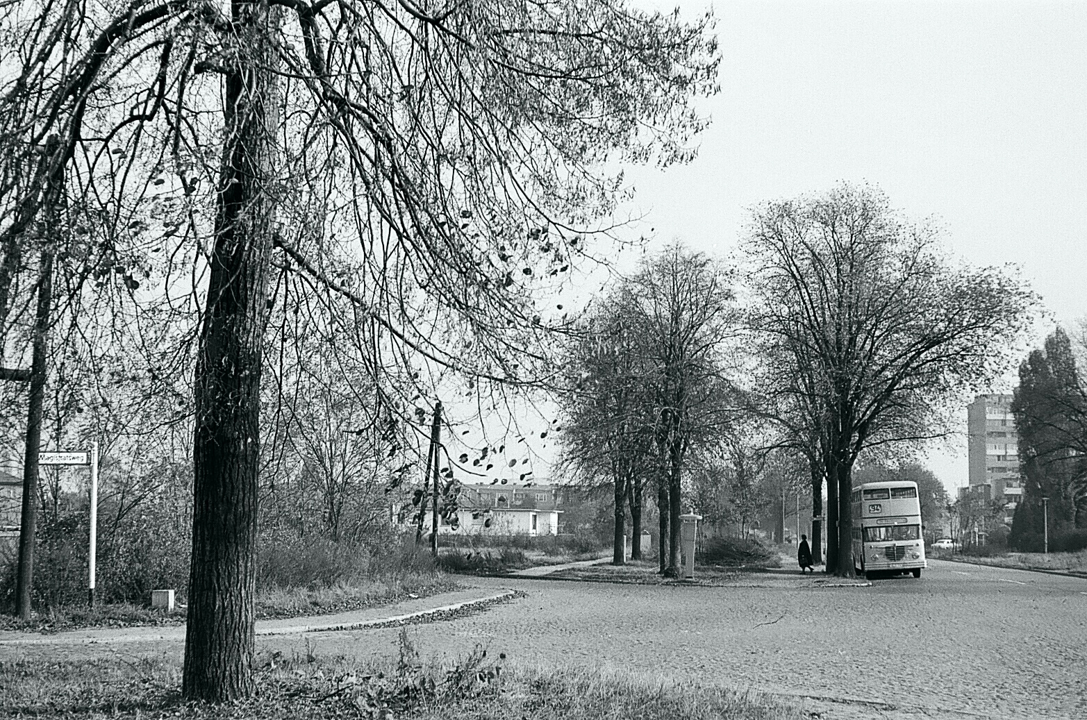 5-end crossroad in the locality of Staaken in Berlin-Spandau